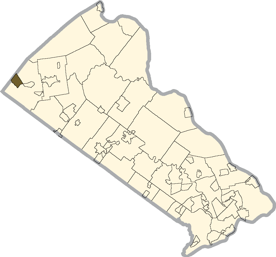 Spinnerstown shaded on the map of Bucks county, PA.